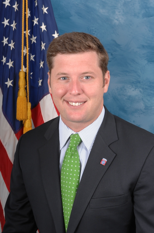 Official portrait of Congressman Patrick J. Murphy, 2009